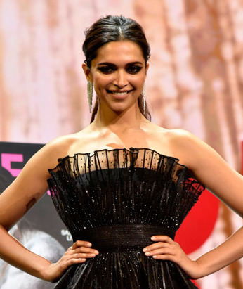 Deepika Padukone at the Filmfare Middle East Awards in 2018